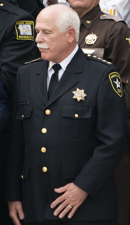 President Donald J. Trump is presented with a plaque of recognition from Sheriff Thomas Hodgson of Bristol County, Massachusetts, Thursday, Sept. 26, 2019, at the South Portico of the White House. (Official White House Photo by Joyce N. Boghosian)